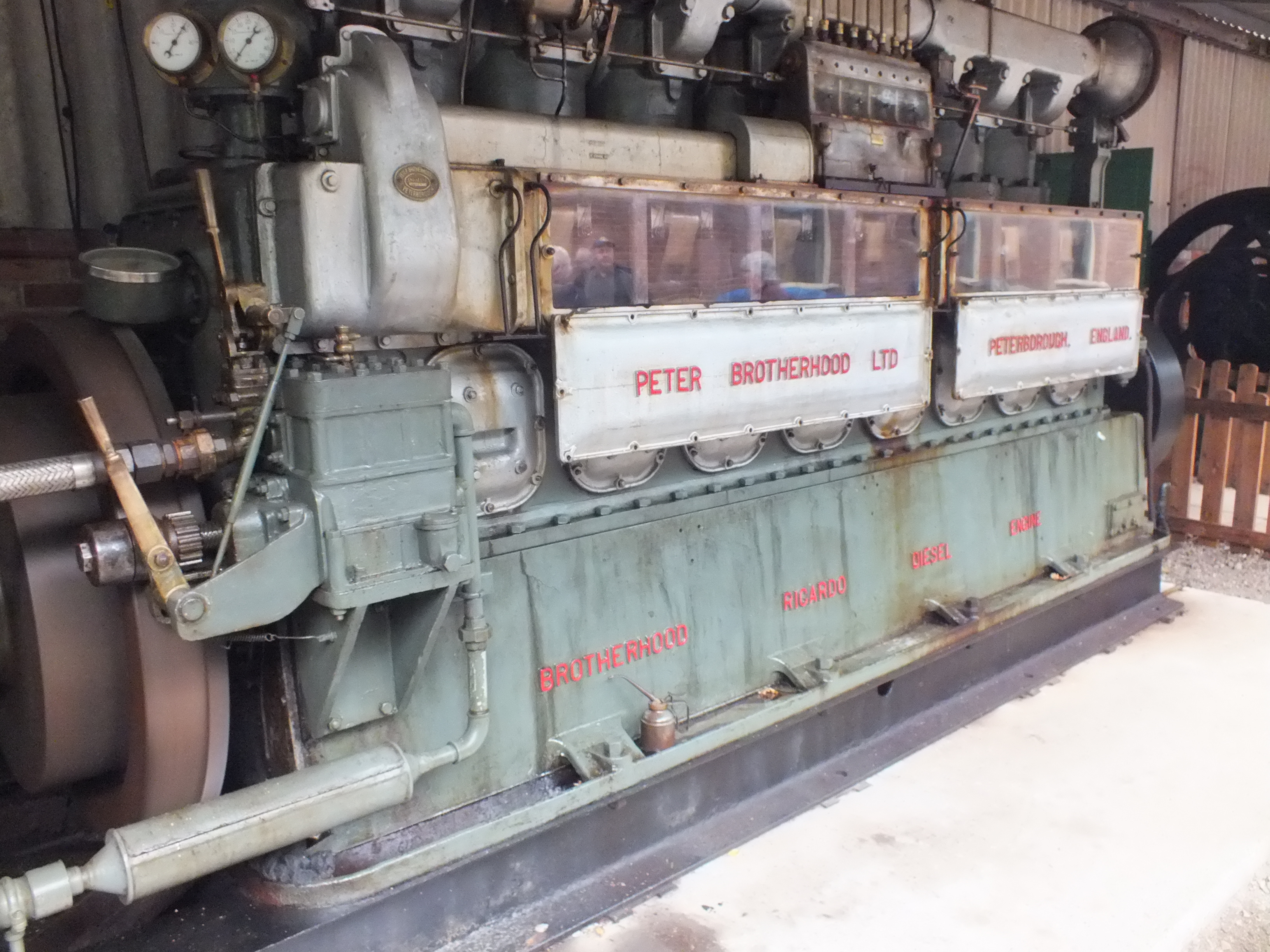 The Anson Engine Museum in Poynton, Cheshire collection. Peter Brotherhood Ricardo Diesel Engine